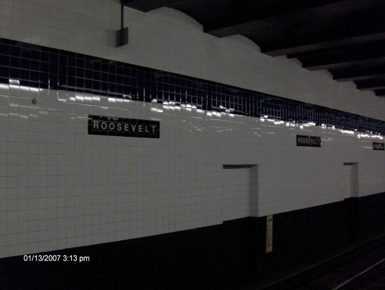 Roosevelt Avenue